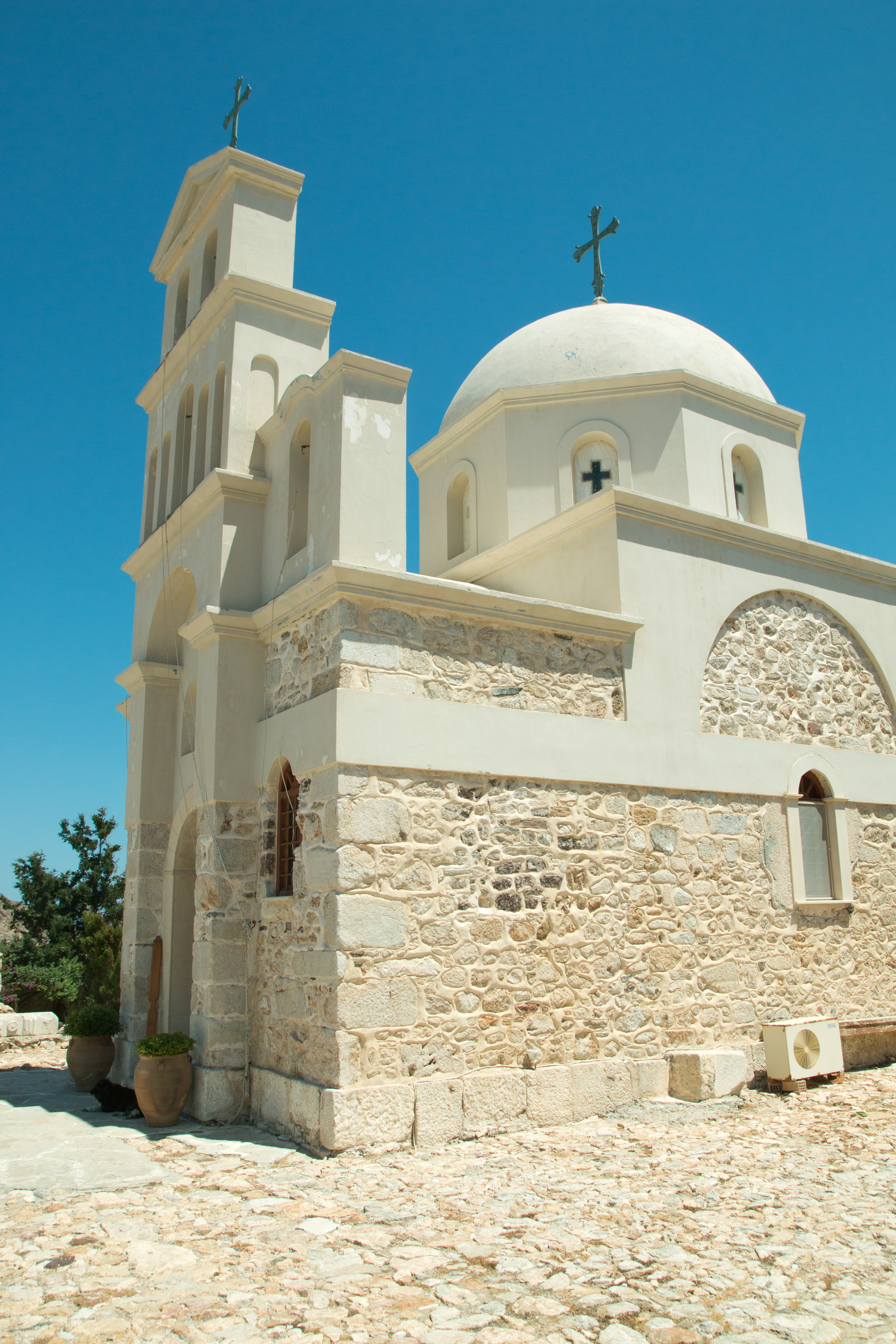 The church in the courtyard of the Zoodochos Pigi monastery stands in places where the courtyard of Apollo's sanctuary was. Anafi.